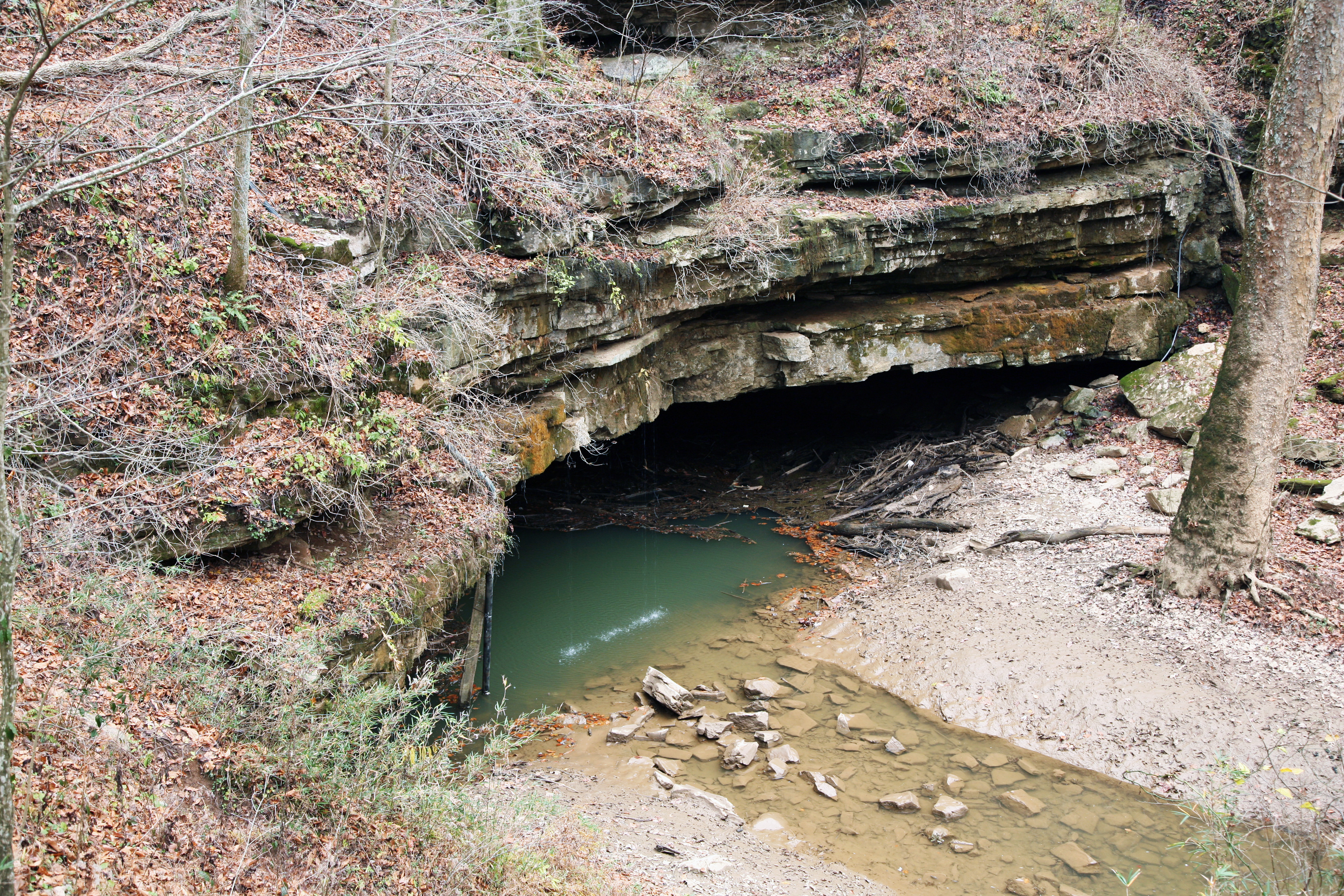 River Styx, a partly subterranean waterway, emerges onto the surface in Mammoth Cave National Park.